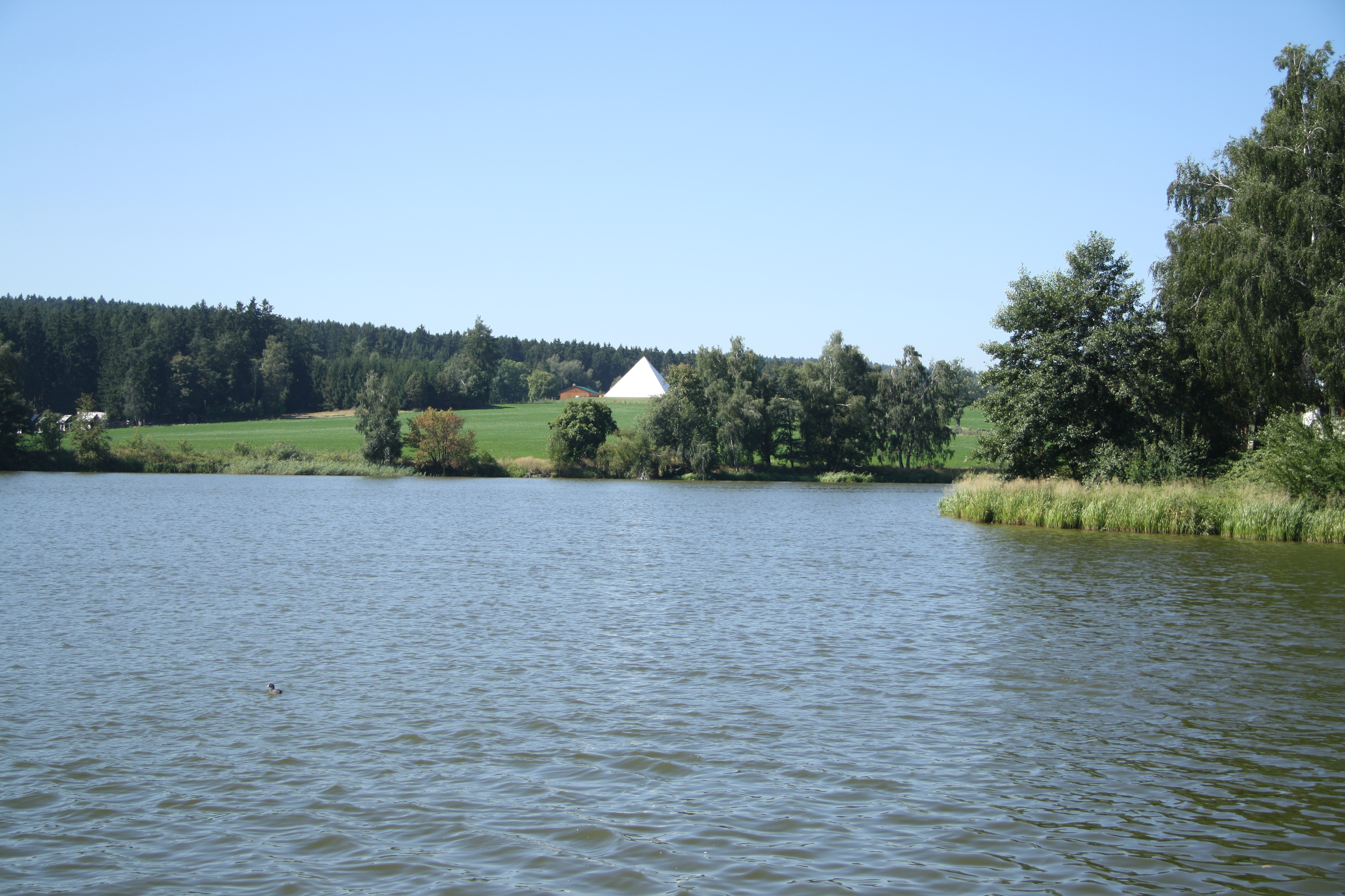 Bohdalovský pond near Bohdalov, Žďár nad Sázavou District.